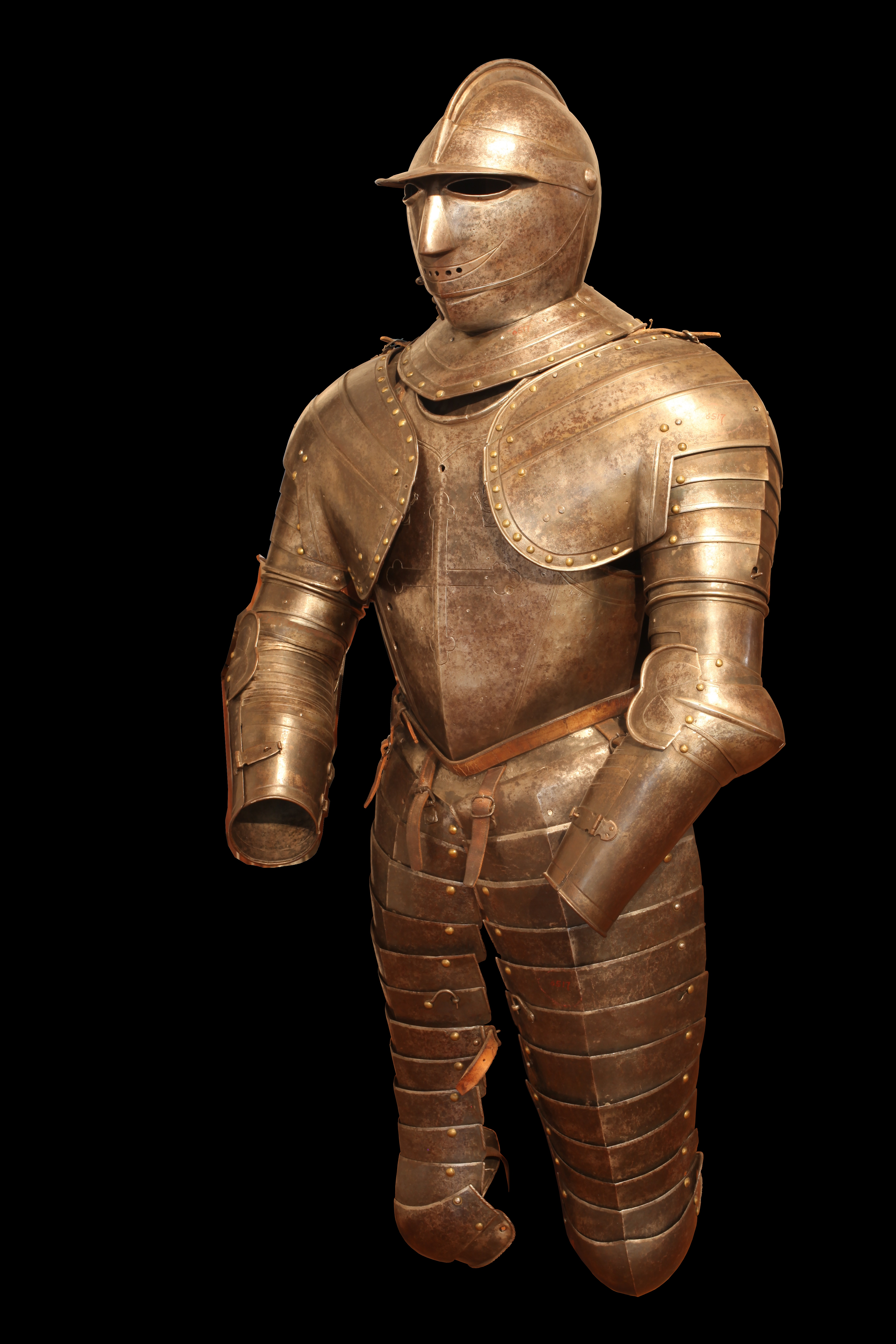 Cuirassier's armour in Savoyard style, ca. 1600-1610. On display at Morges military museum